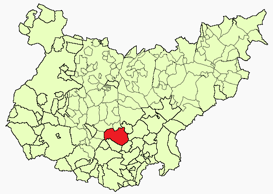 Usagre